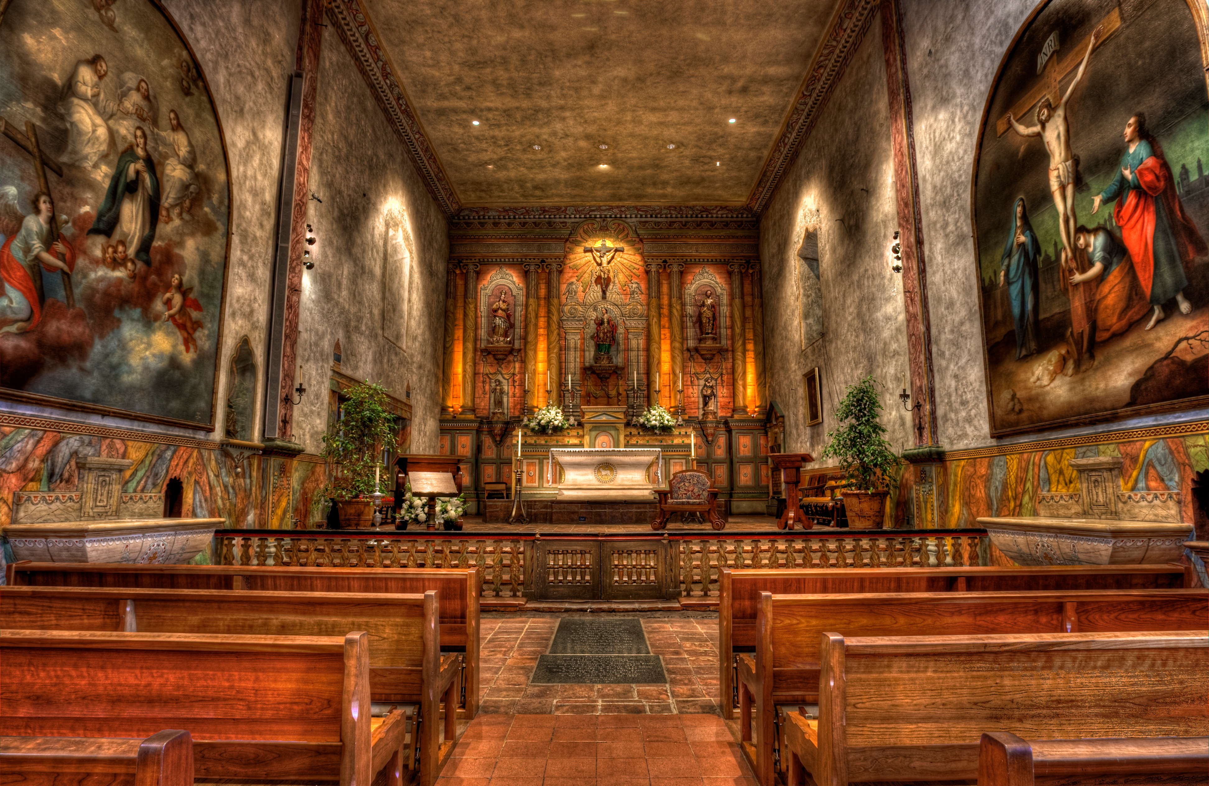 HDR image of the interior of Mission Santa Barbara, Santa Barbara, California, USA. Taken with Canon 1D Mark III w/16-35mm f/2.8L on a Gitzo GT5531S carbon fiber tripod and RRS BH-55 ballhead. Because of the wide range in tonality I made seven images 1-stop steps and processed with Photomatix and finished in CS4 Extended.